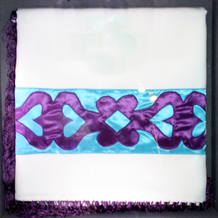 Women's dance shawl with ribbonwork appliqué by Josephine Parker (Wichita), 1989, collection of Oklahoma History Center, Oklahoma City, OK